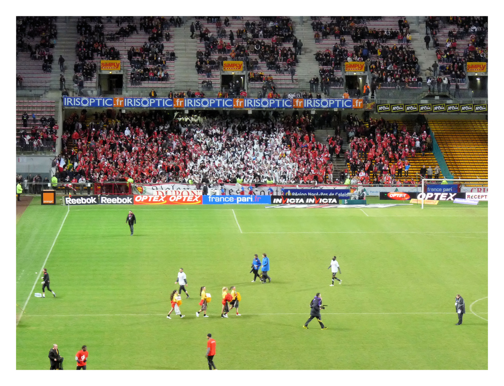 Valenciennes fans before Lens-VAFC, in Bollaert stadium.